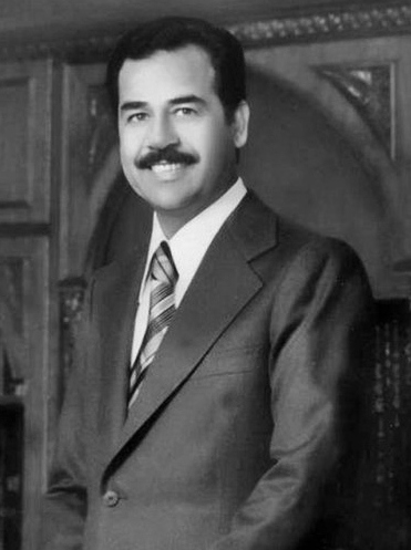 Cropped photograph of Saddam Hussein from 1980. (Image originally uploaded to Wikimedia Commons by Georgethewriter. Image reuploaded to Wikimedia Commons by Emiya1980 after decreasing saturation using Preview (macOS) and increasing cropping, increasing shadowing, and increasing contrast using Photo Editor at